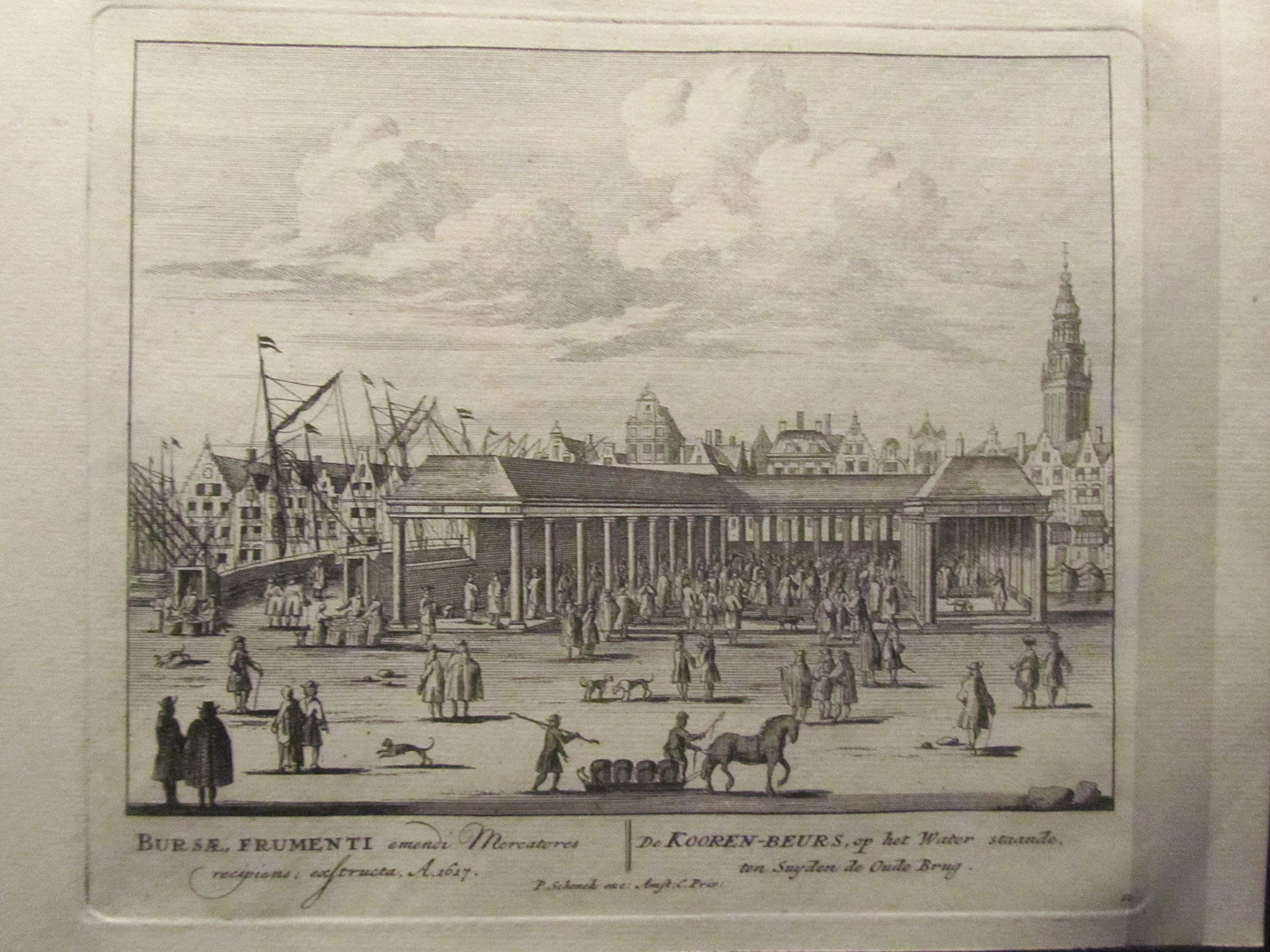 Image of the Korenbeurs (Grain Exchange), which stood on Damrak in Amsterdam. Illustration from Petrus Schenk, Afbeeldingen der voornaamste gebouwen in Amsterdam, Amsterdam, c. 1732. Photo taken at the Bijzondere Collecties (Special Collections) of the University of Amsterdam